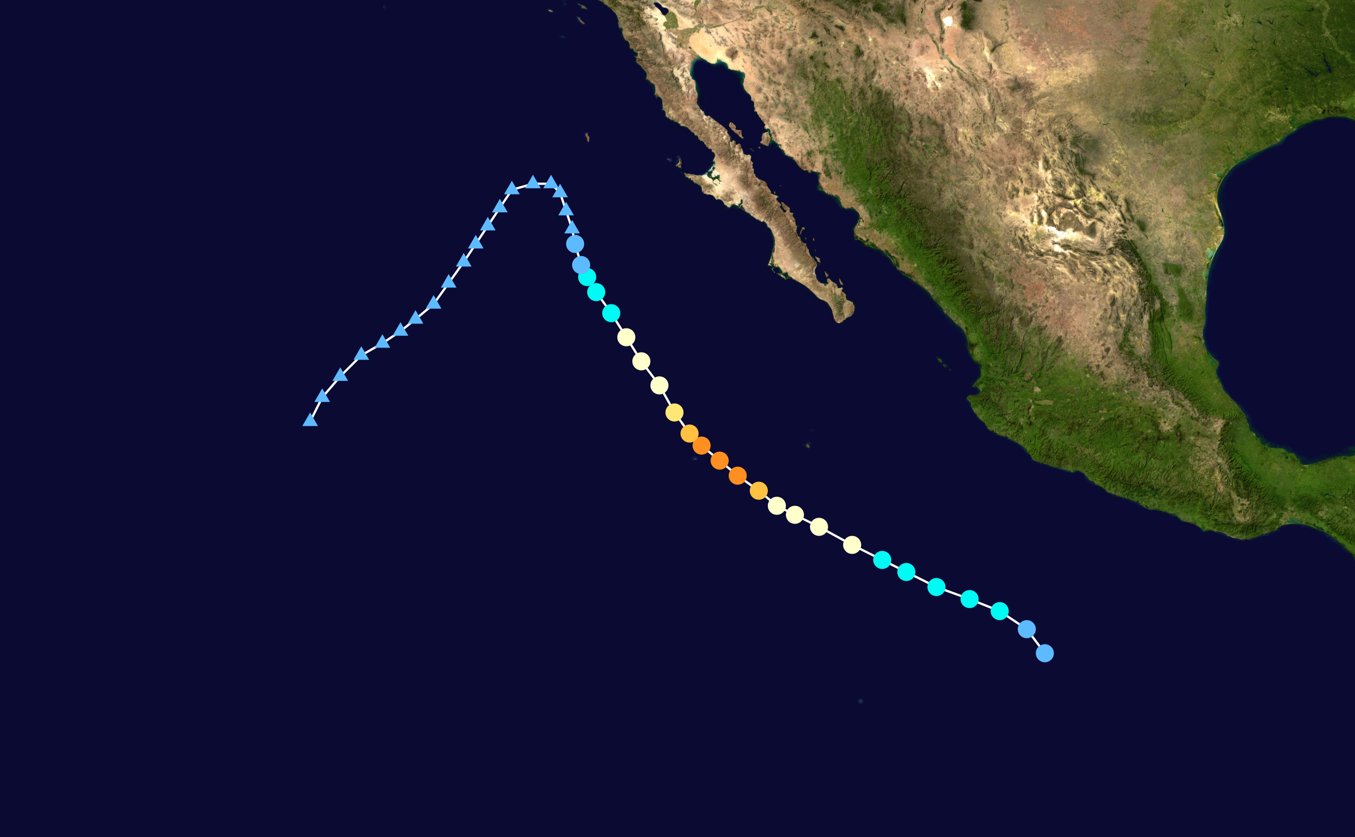 Hurricane Howard (2004) track. Uses the color scheme from the Saffir-Simpson Hurricane Scale.